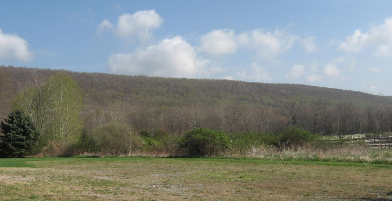 Schooleys Mountain near Long Valley, New Jersey